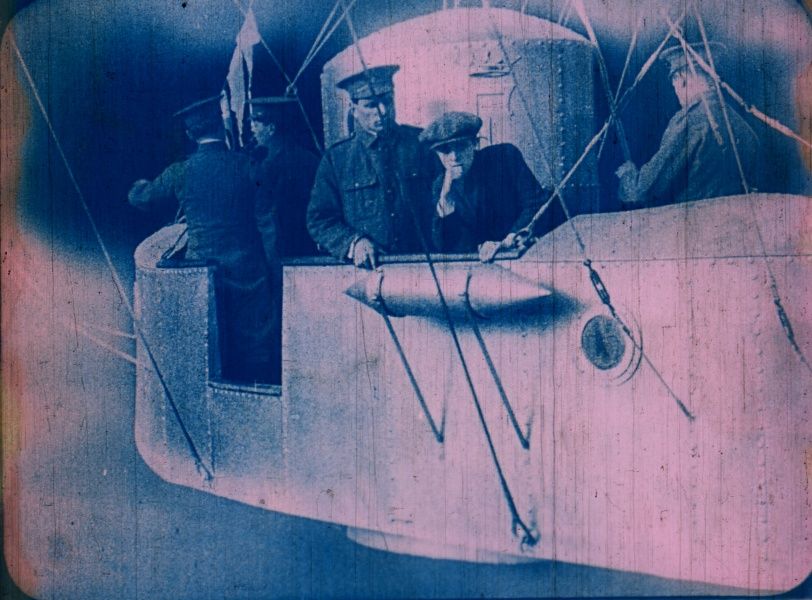 Cristina Ruspoli in a frame from Filibus (Italy: Corona Film, 1915, directed by Mario Roncoroni).